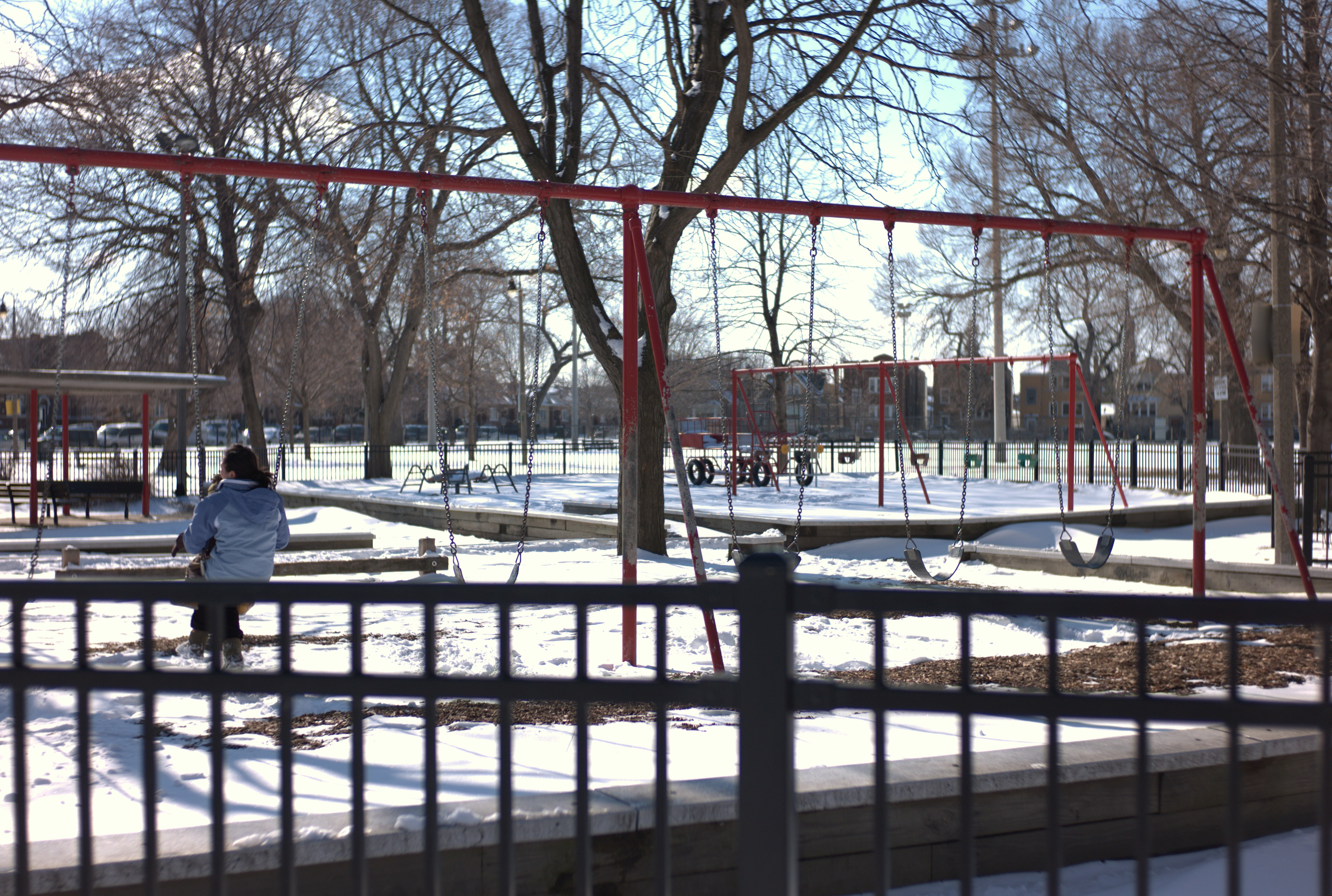 Chopin Park, Chicago, Illinois